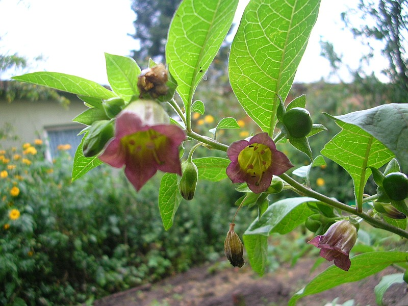 deadly nightshade flowering, late July Poland